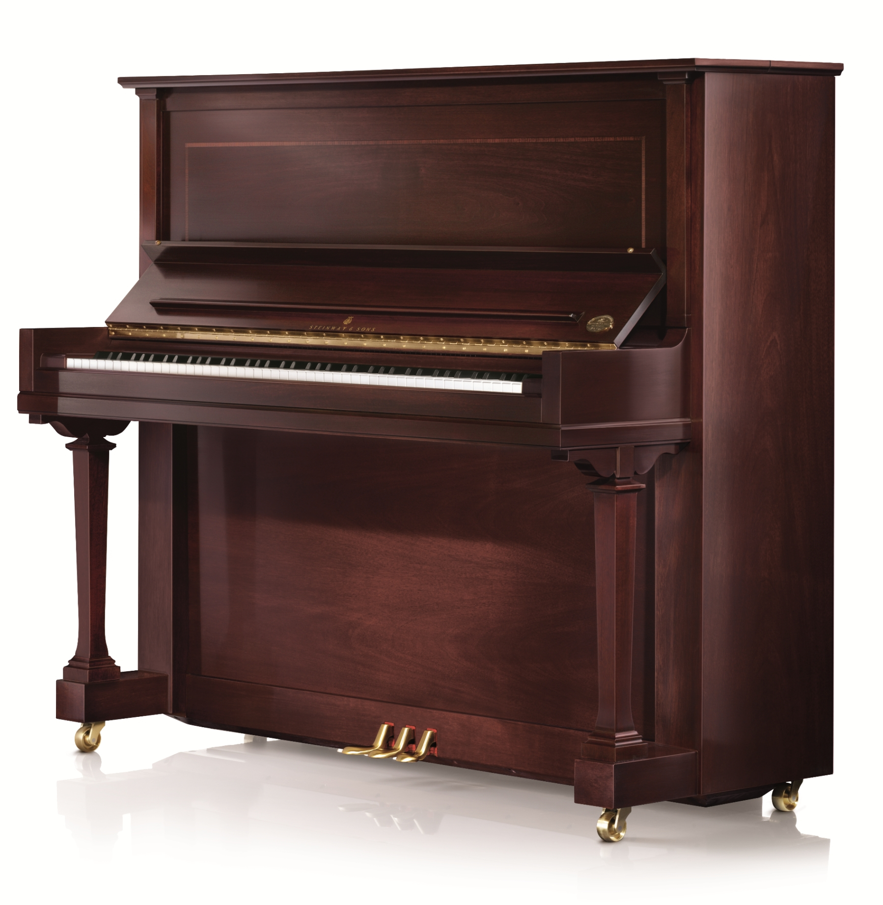 Steinway & Sons upright piano in mahogany finish, model K-52 (height: 132 cm / 52 in, width: 154 cm / 60.6 in, depth: 67 cm / 26.4 in, weight: 273 kg / 600 lb), manufactured at Steinway's factory in New York City.